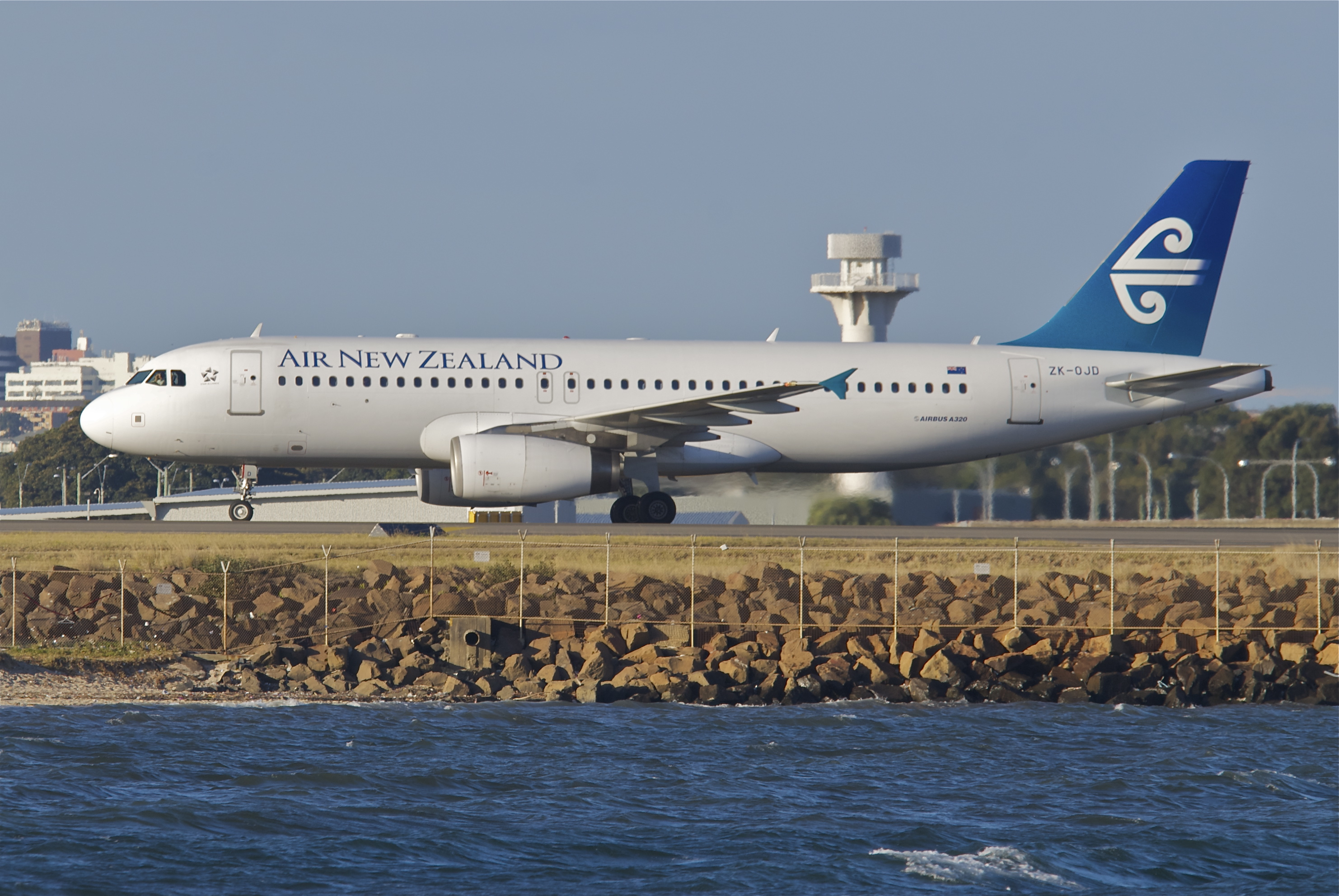 Air New Zealand Airbus A320-232; ZK-OJD@SYD;30.07.2012/665dv